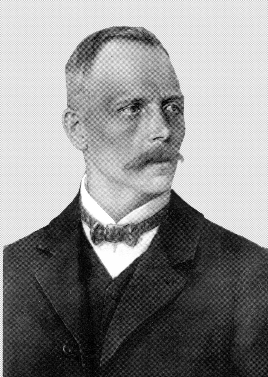 image: Friedrich Westmeyer (*14. Januar 1873 in Osnabrück; † 14. November 1917 in Rethel), politician, trade unionist. Image: image produced by Berkan, 2008, picture shows: Friedrich Westmeyer (*14. Januar 1873 in Osnabrück; † 14. November 1917 in Rethel), politician, trade unionist.